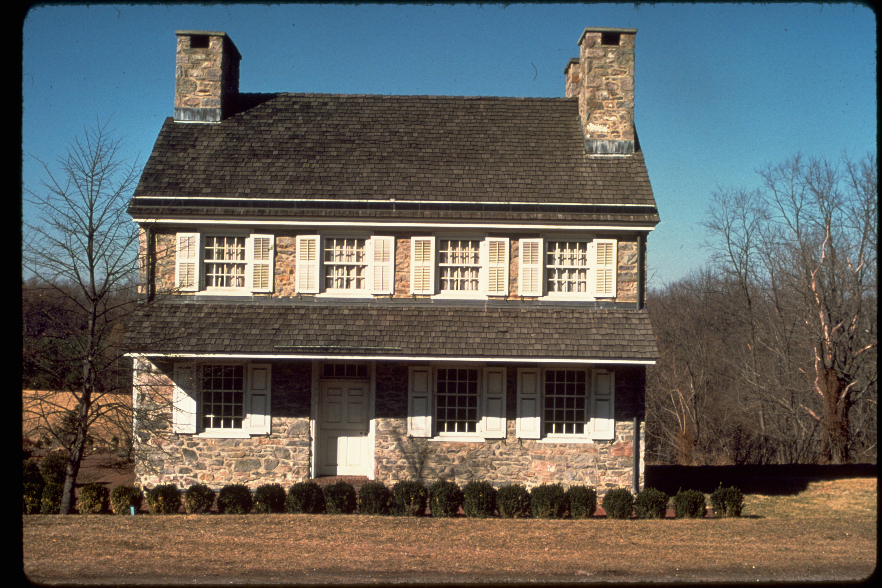 Valley Forge National Historical Park commemorates more than the sacrifices and perseverance of the Revolutionary War generation; it honors the ability of citizens and their leaders to pull together and overcome adversity during extraordinary times.